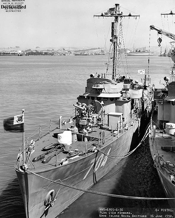 Photo #: NH 85498 Chiri San (South Korean submarine chaser, formerly USS PC-810) At the Mare Island Naval Shipyard, California, 16 June 1950, loading deck cargo for her impending trans-Pacific voyage to Korea. Her sister ship Kum Kang San is at right. Note 3"/50 dual-purpose gun mounted forward, Republic of Korea flags at bow and stern, mast and "crow's nest", Danforth anchor, navigation lights, ship's bell mounted on the pilothouse front and other details on and around her main deck. On the original print, her old U.S. Navy hull number ("810") is visible in spot welded outline behind her Korean Navy bow number ("704"). USS George A. Johnson (DE-583) is in the left center distance. Official U.S. Navy Photograph, from the collections of the Naval Historical Center.